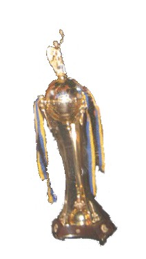 Picture of the 2008 Ukrainian Cup.